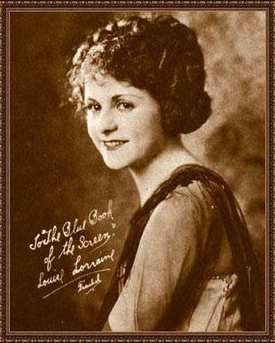 Publicity photo of Louise Lorraine from The Blue Book of the Screen by Ruth Wing, editor